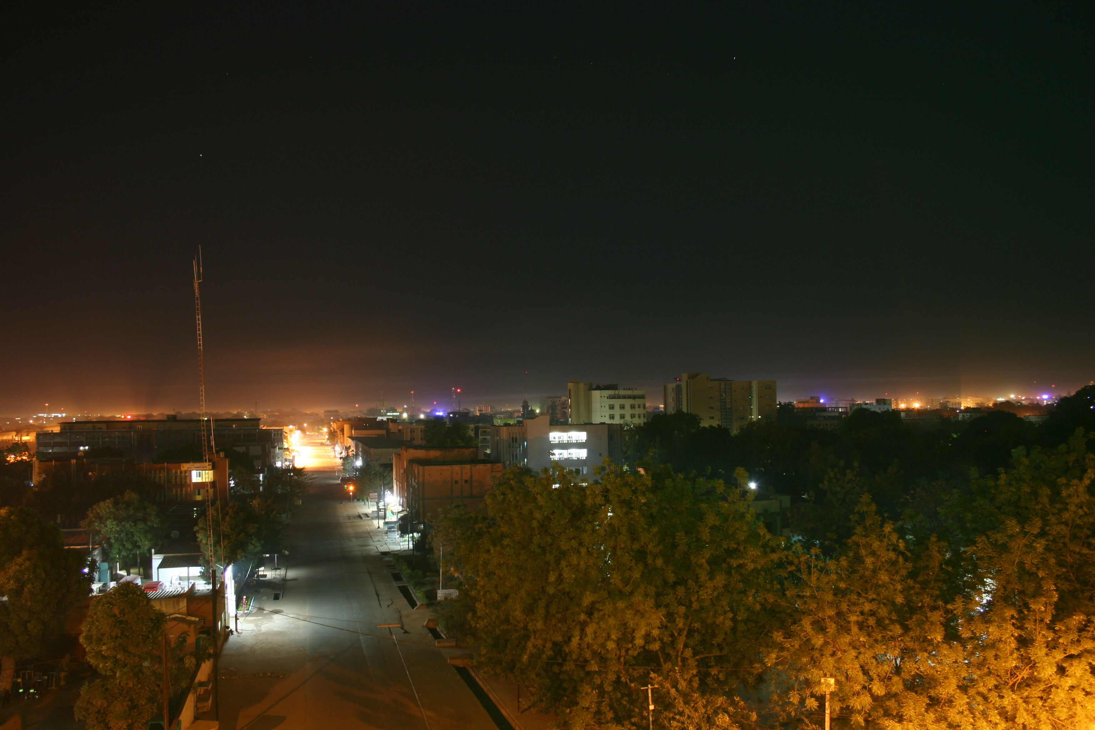 View of city centre at night, Ouagadougou, Burkina Faso, West Africa (from roof of the Amiso hotel)